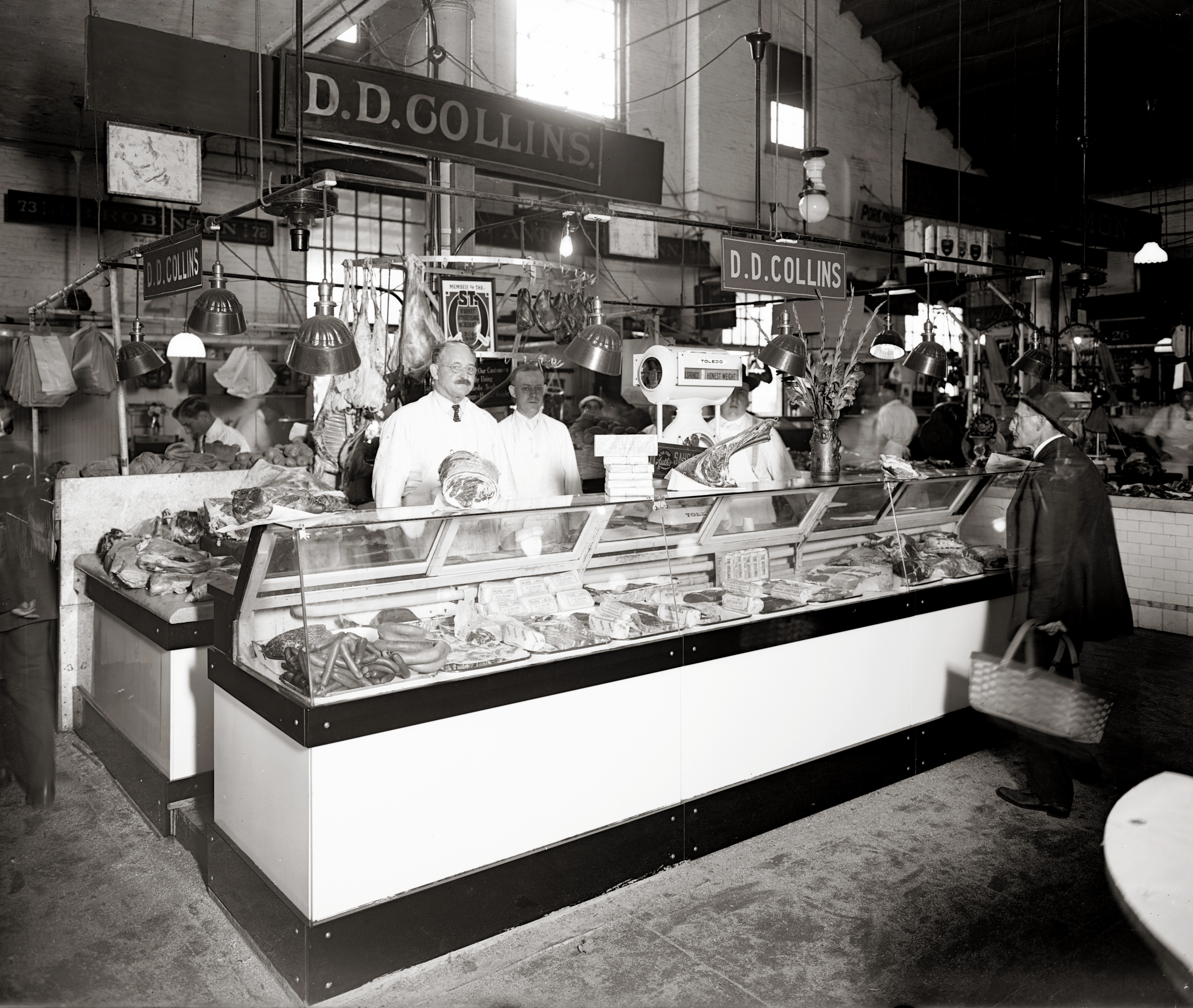 D.D. Collins' meat stands (Stands 94 and 95) located at O Street Market in the Shaw neighborhood of Washington, D.C.